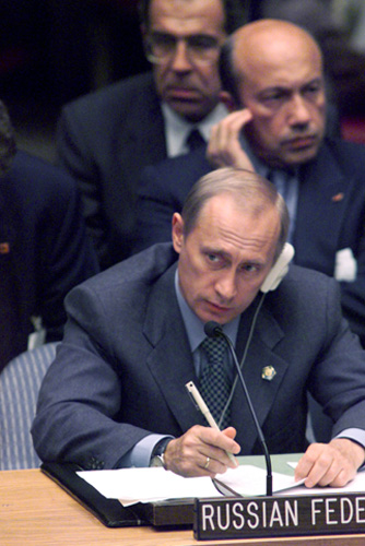 NEW YORK. A meeting of the UN Security Council at the United Nations headquarters.